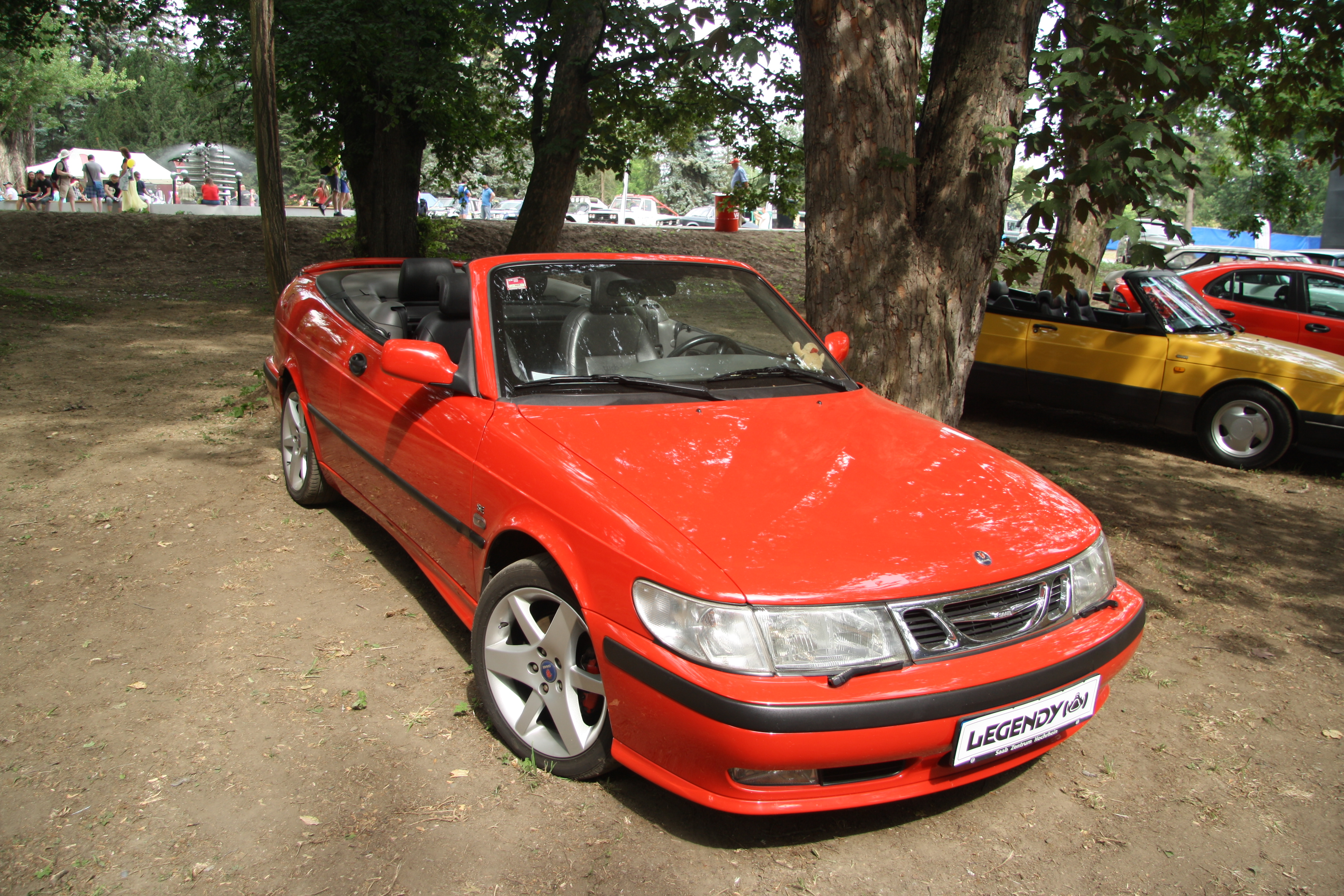 Saab 9-3 SE Convertible at Legendy 2018 in Prague.